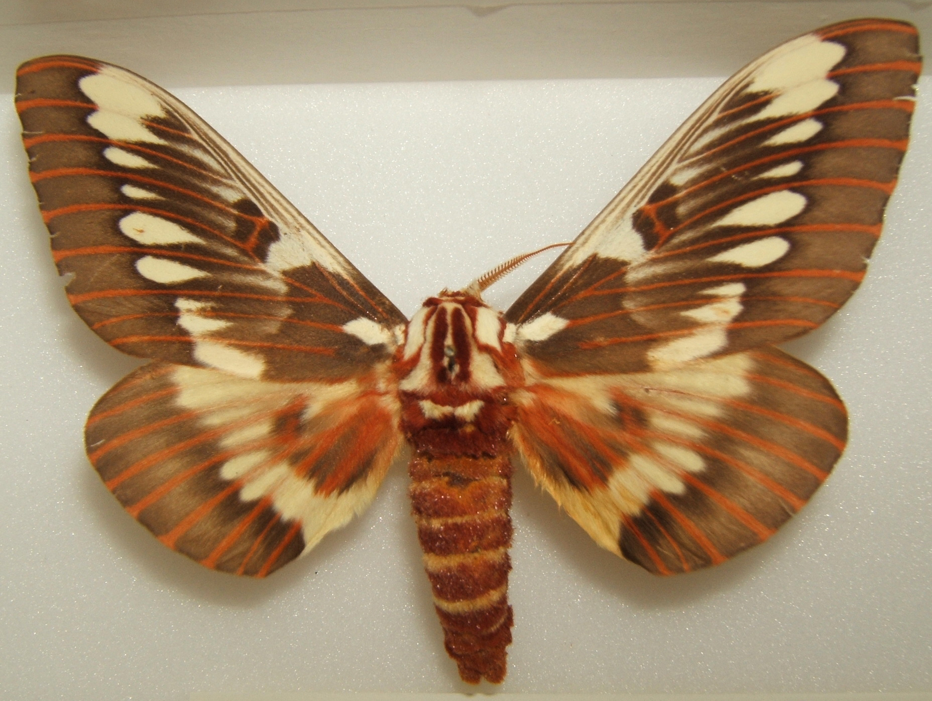 Citheronia splendens sinaloensis adult male taken by Shawn Hanrahan at the Texas A&M University Insect Collection in College Station, Texas.